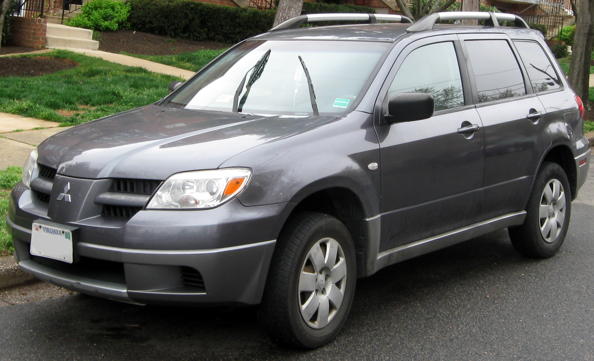 2006 Mitsubishi Outlander photographed in Washington, D.C., USA.